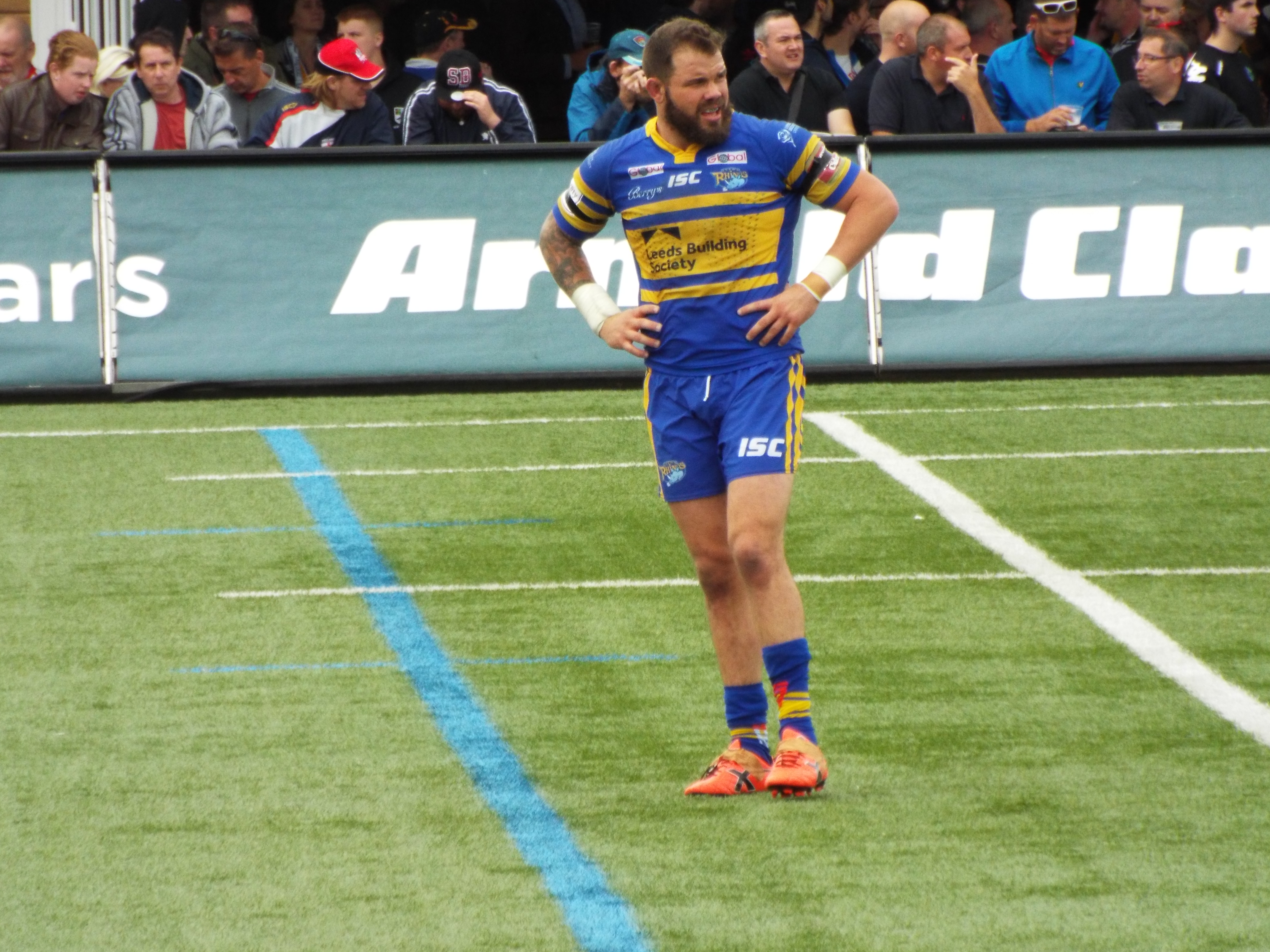 Adam Cuthbertson